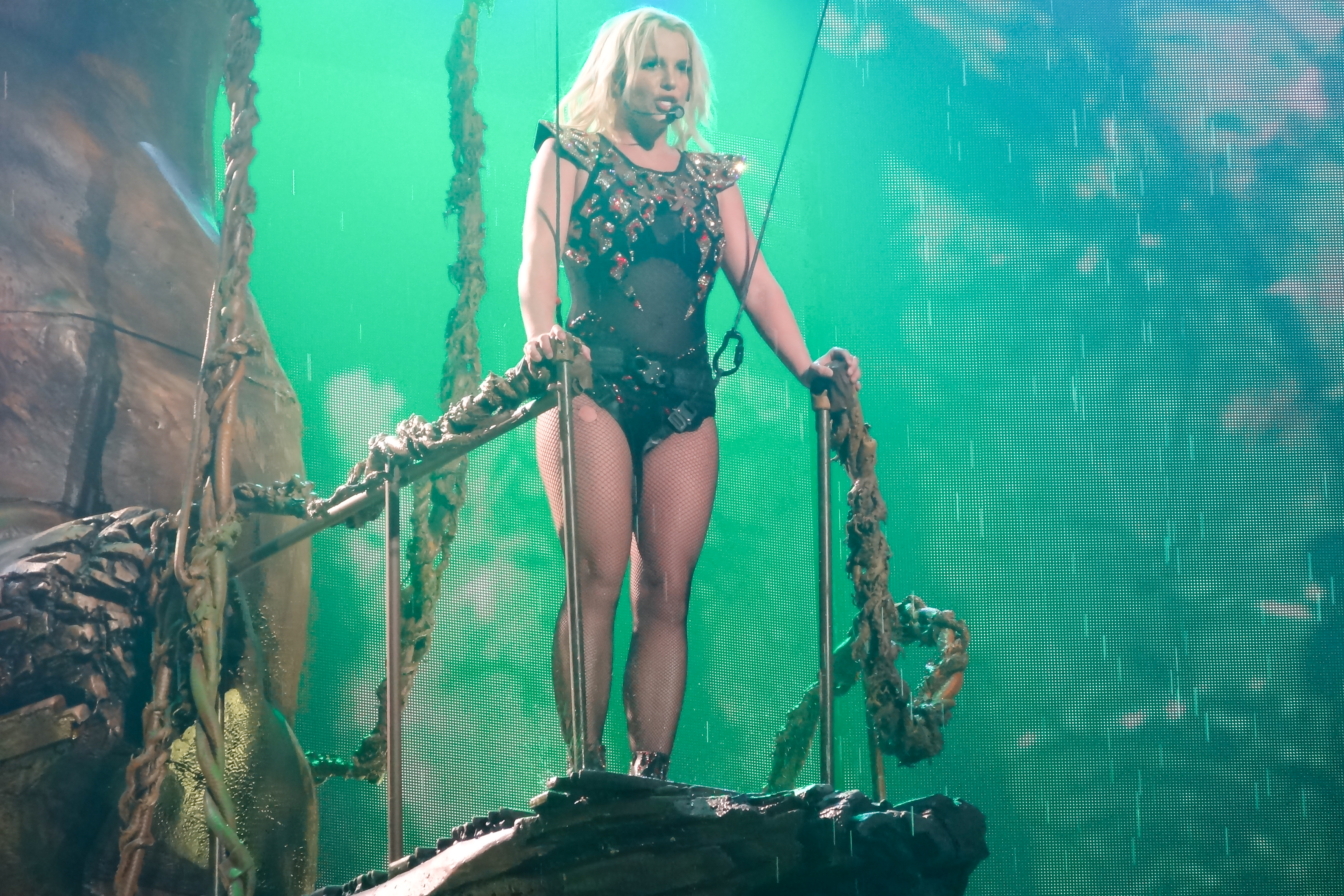 Toxic